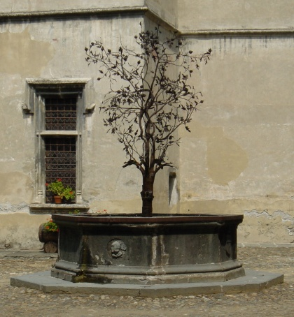 Fountain in Issogne Castle